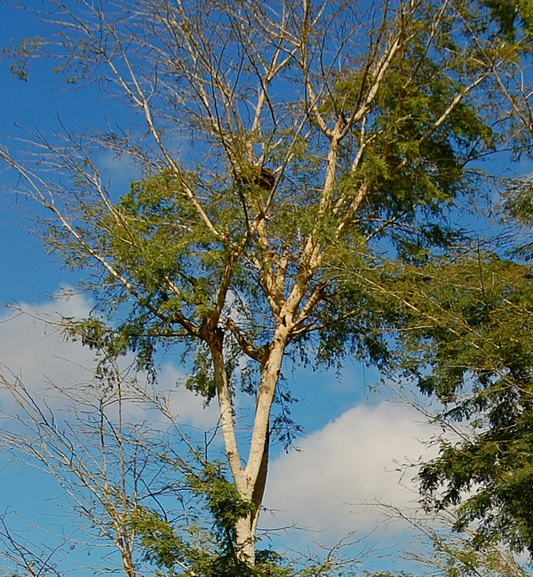 Crown of young Acacia leucophloea. SoE, West Timor, Indonesia.